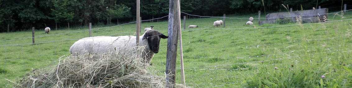 stáda jana ambrůze